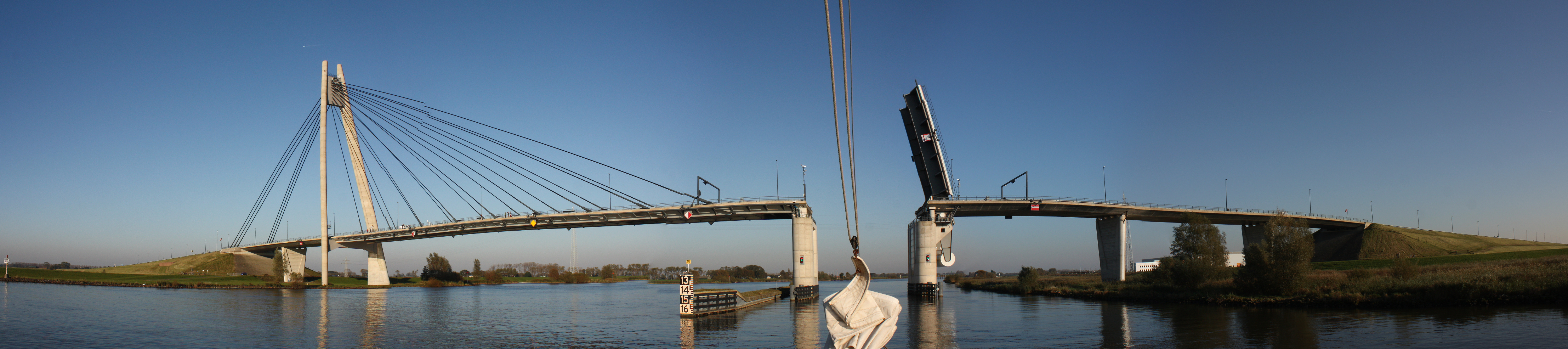 The Eilandbrug near Kampen seen from the west. created from 5 photos. Because the ship was moving, small stitching errors are inevitable.Unknown